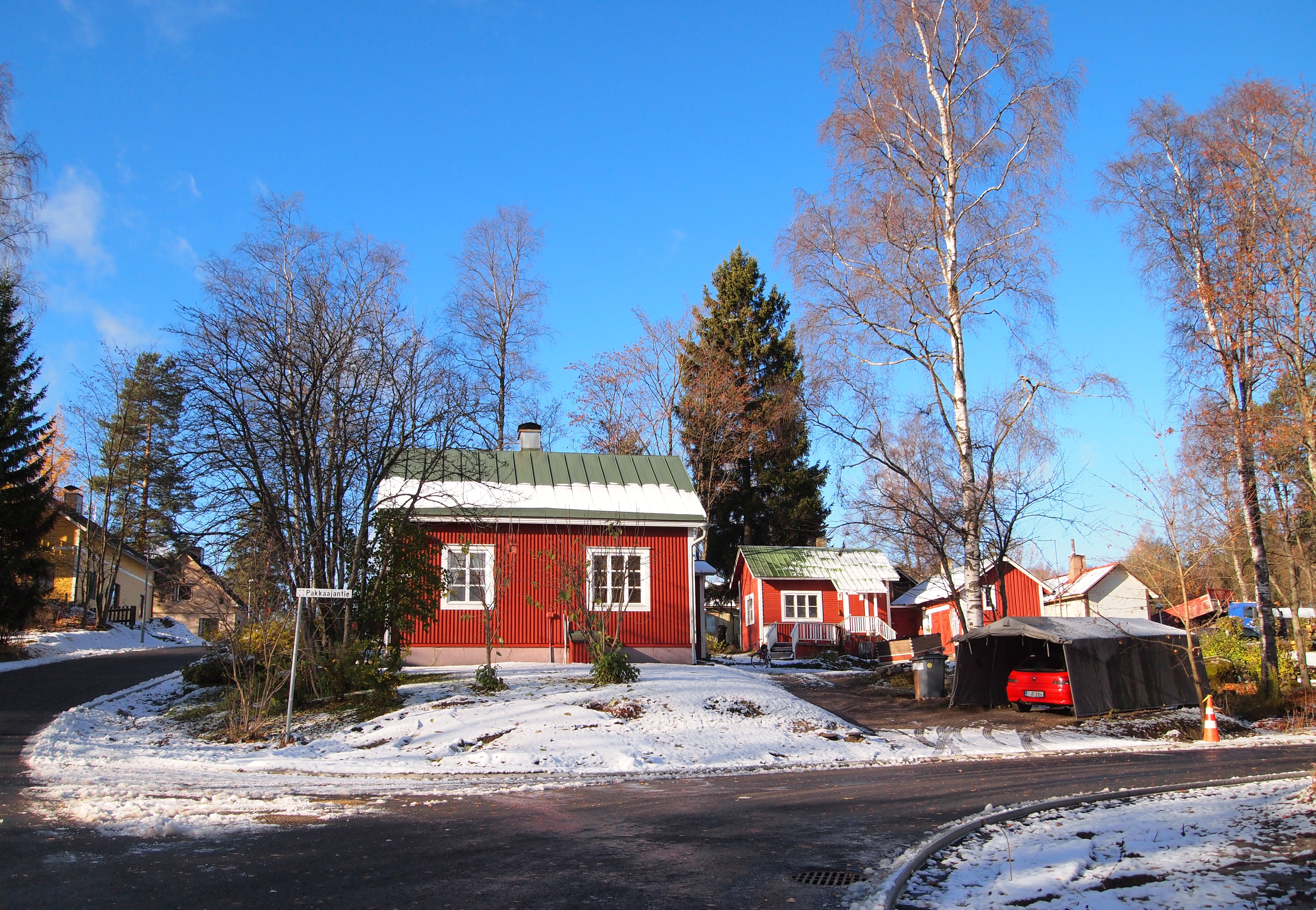 View in Holsti subdistrict, Jyväskylä. This photograph was taken with an Olympus E-PL1